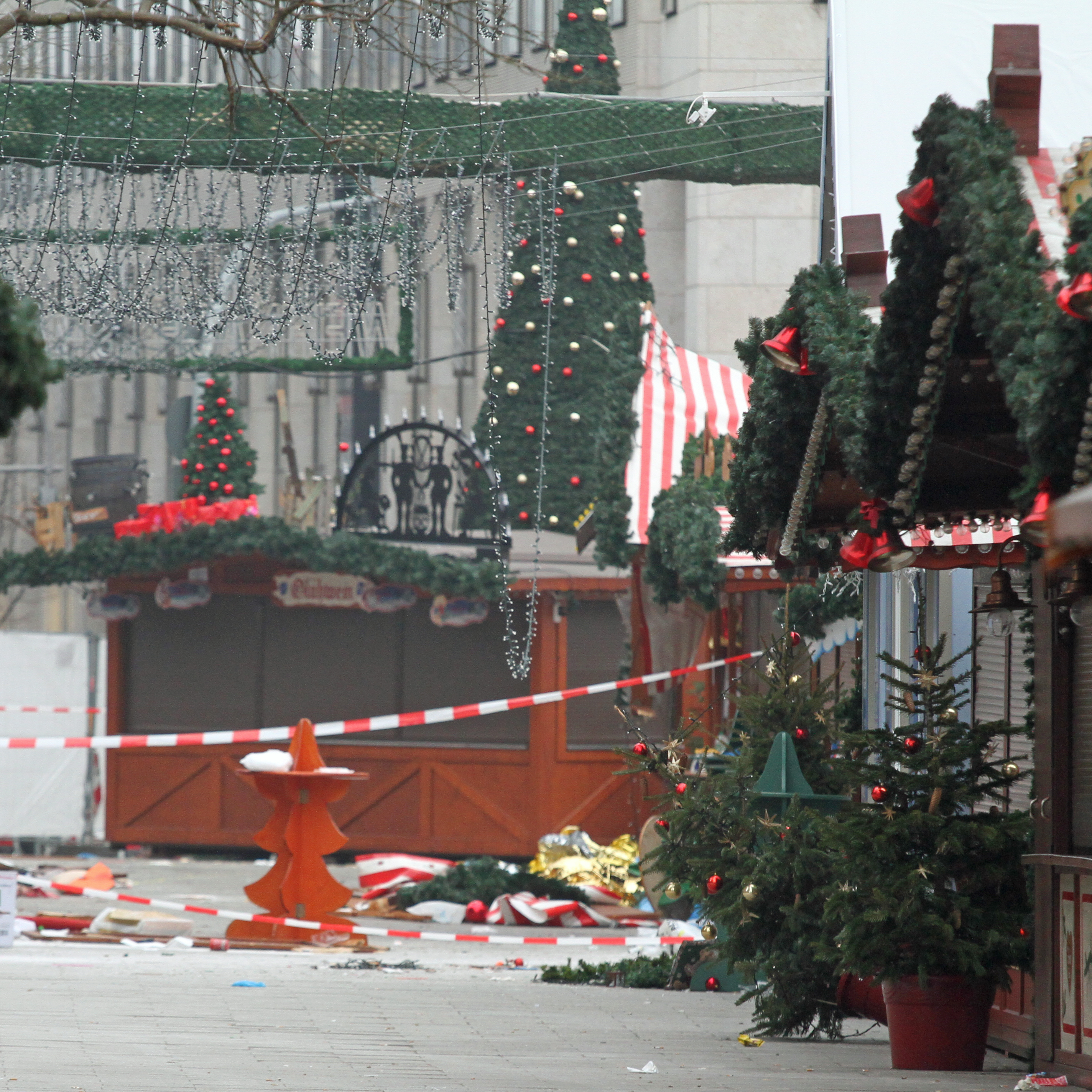 Berlin terrorist attack, 19 December 2016: pictures from the day after